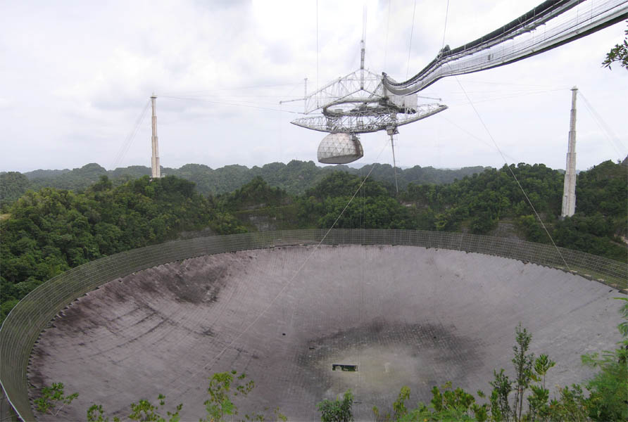 Arecibo Observatory, Puerto Rico